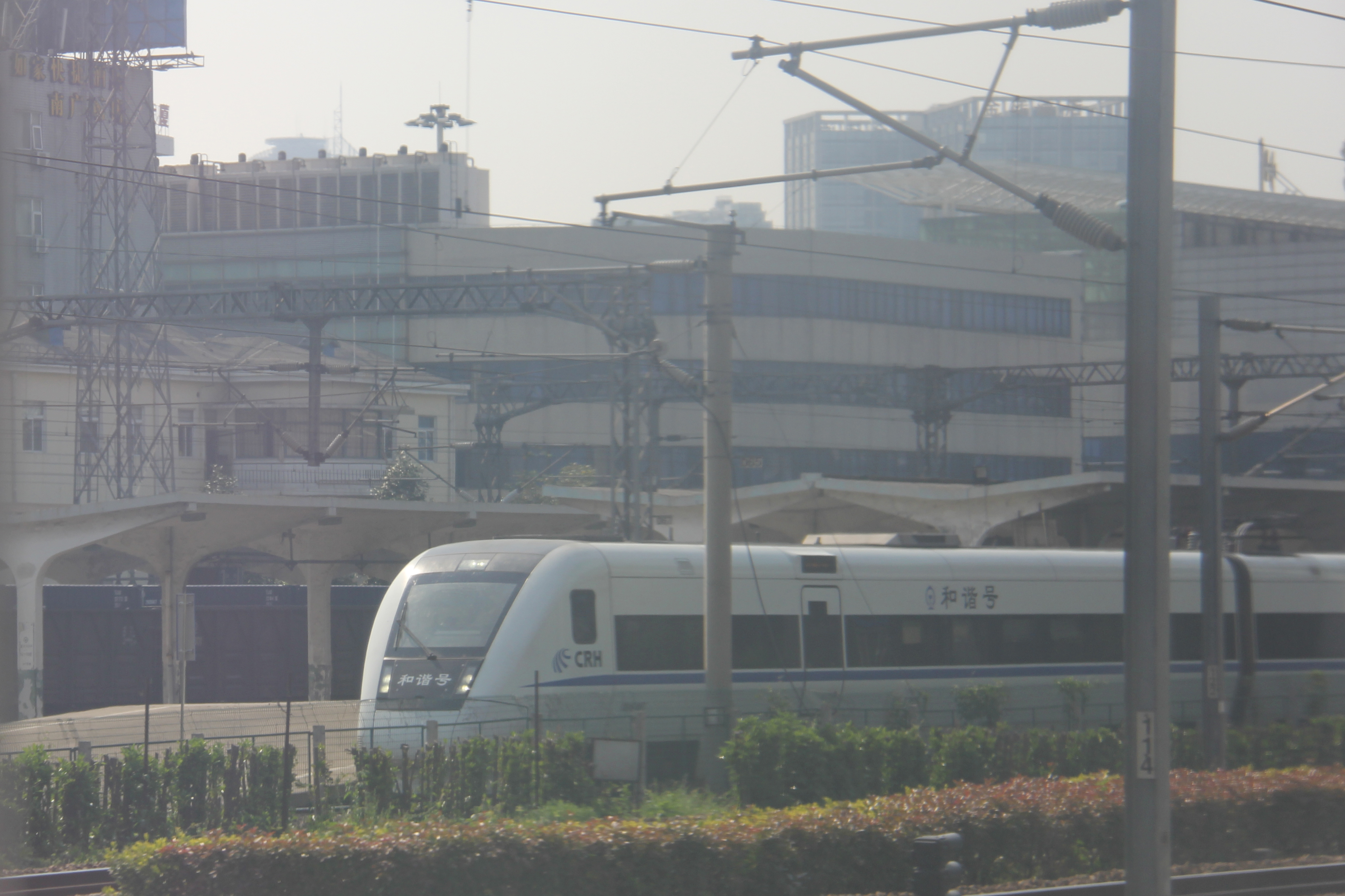 201604 D9555 waits for departure at Changzhou Station